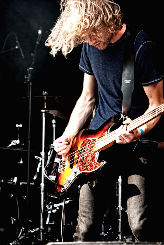 Heroes & Zeros performing at the Slottsfjell festival 2009 (Lars Løberg Tofte pictured)